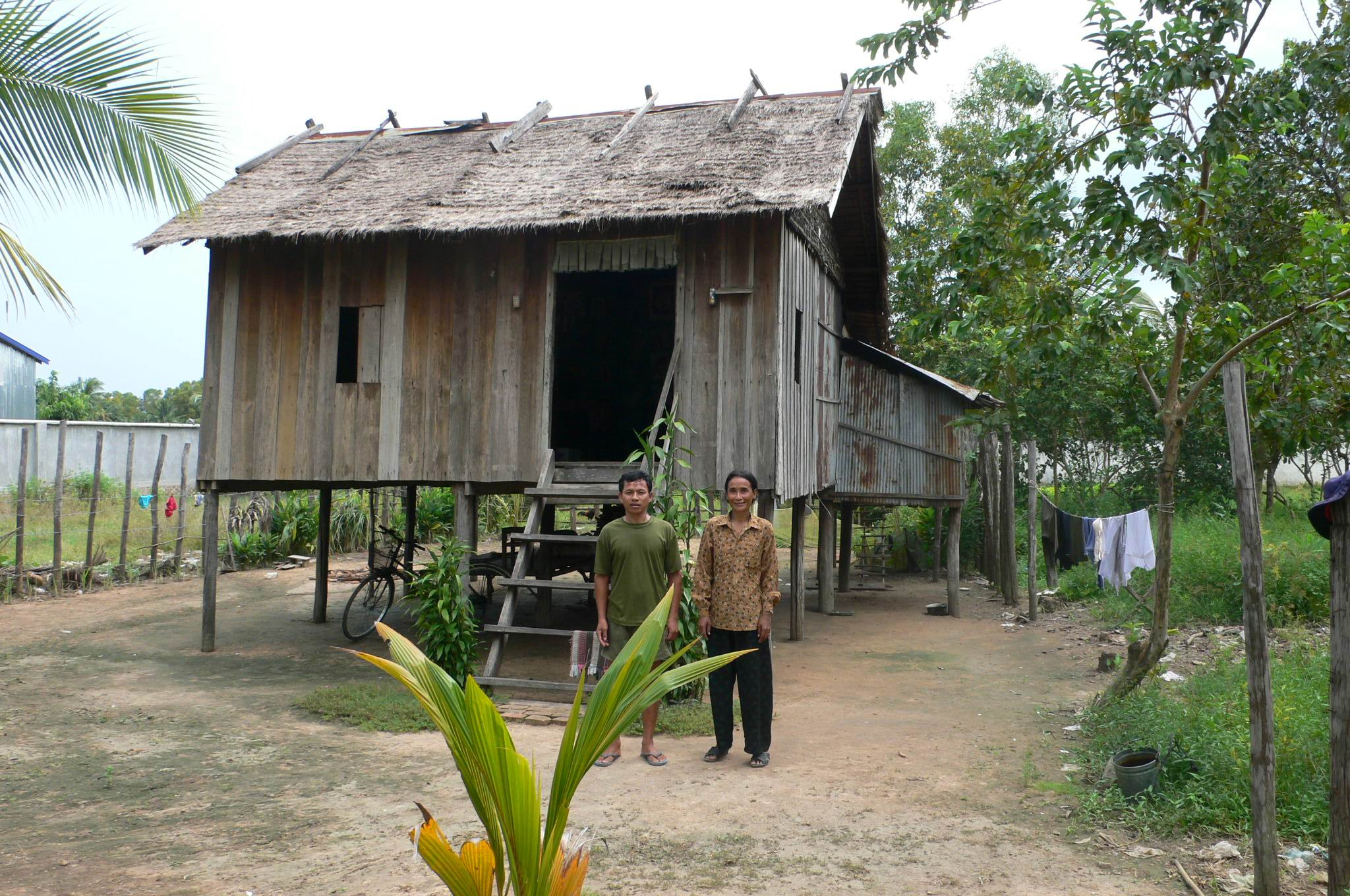 Khmer house